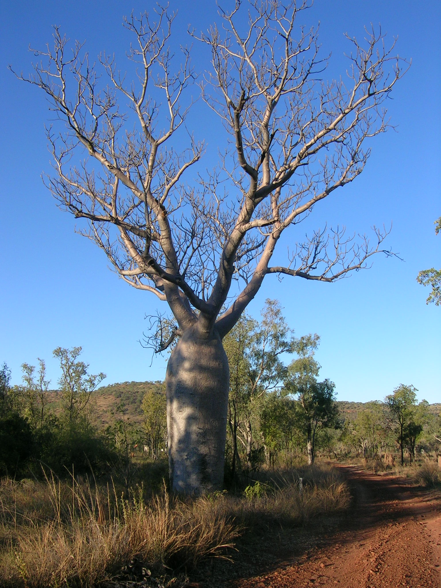 A boab tree in Timber Creek, Northern Territory.